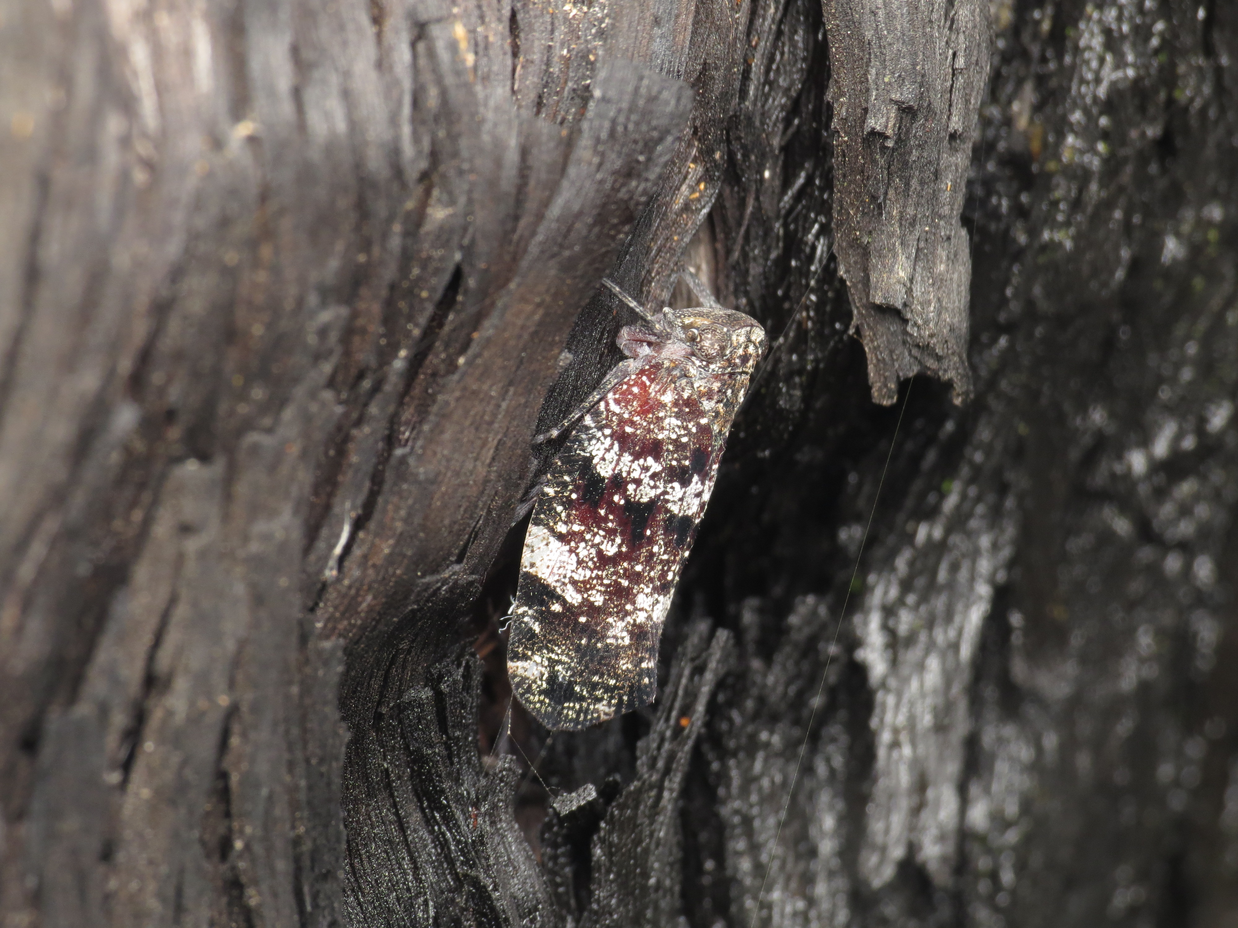 Platybrachys sp., Black Mountain, Canberra, ACT, 6 December 2014